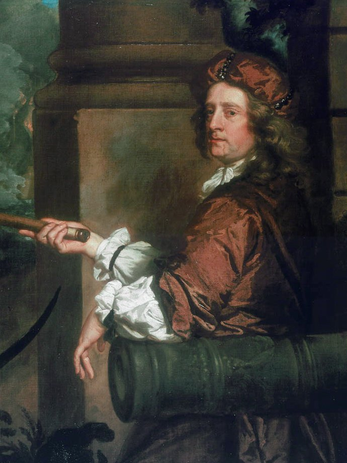 Portrait of Sir Robert Holmes (1622 – 1692), Royal Navy admiral (fragment of the painting by Peter Lely)